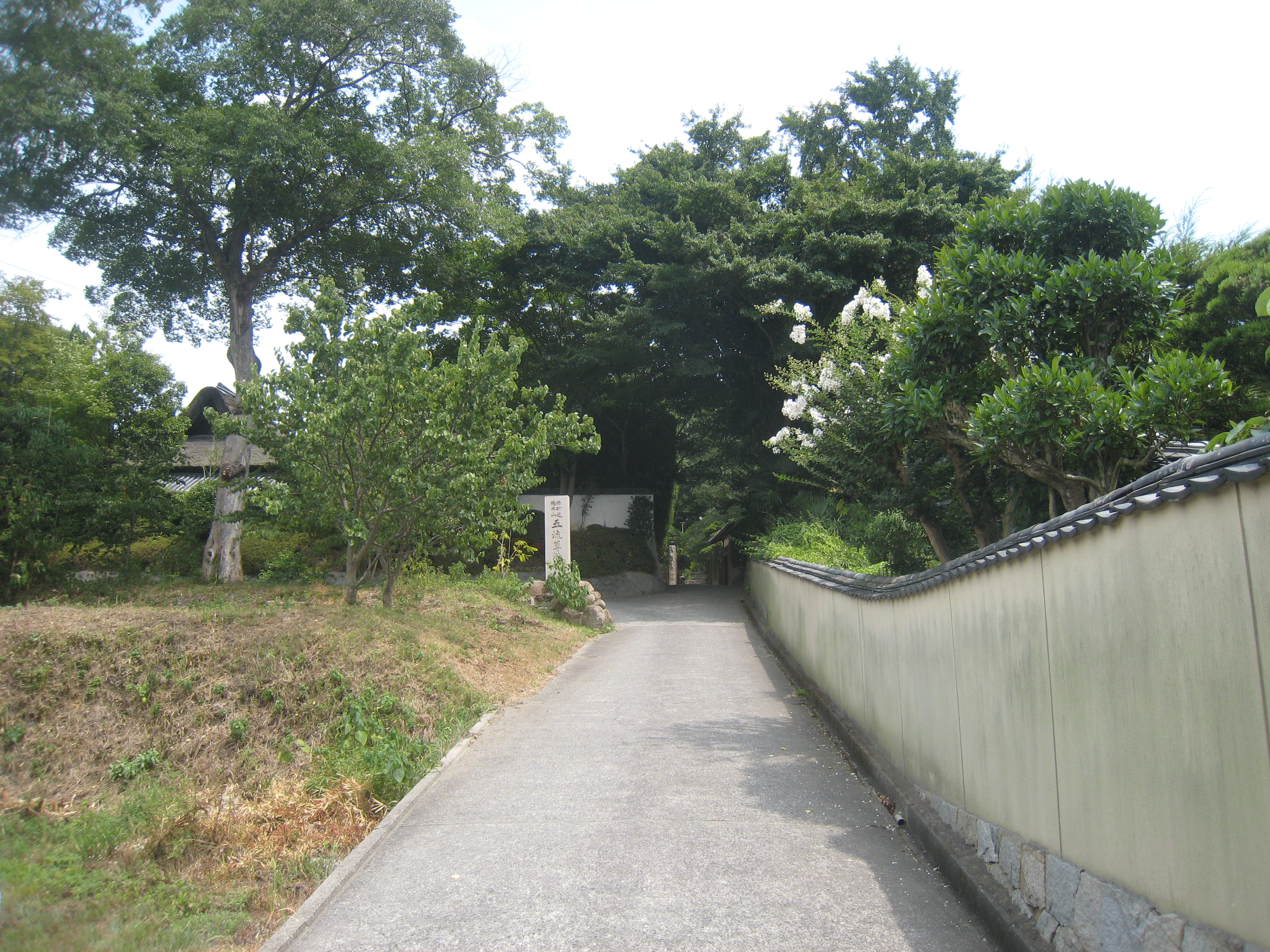 externals of the temple